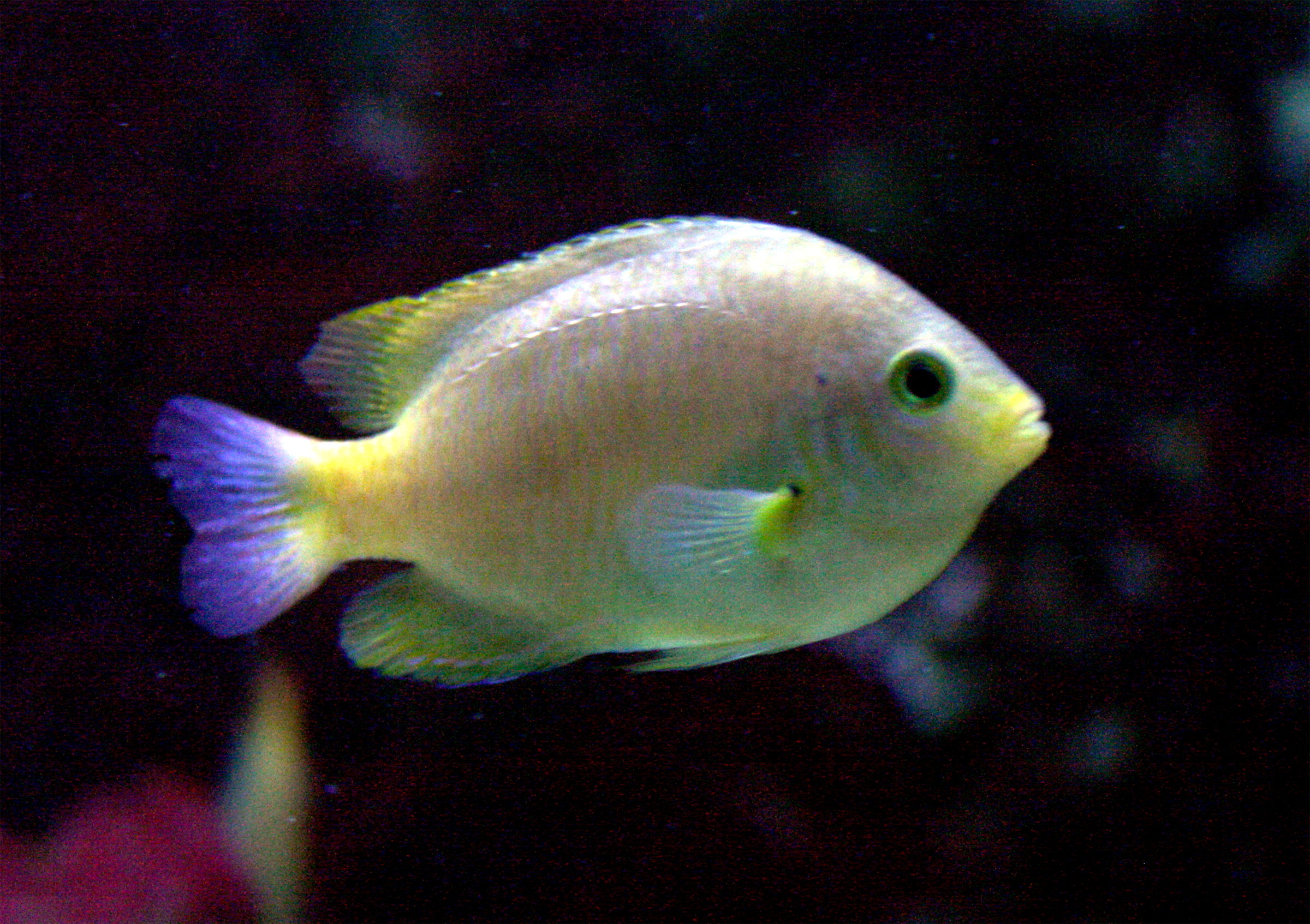 Fish Pomacentrus moluccensis in Prague sea aquarium, Czech Republic